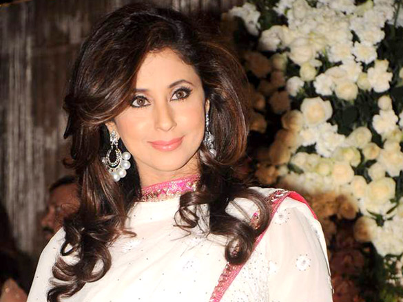 Urmila Matondkar at Dheeraj Deshmukh-Honey Bhagnani wedding reception